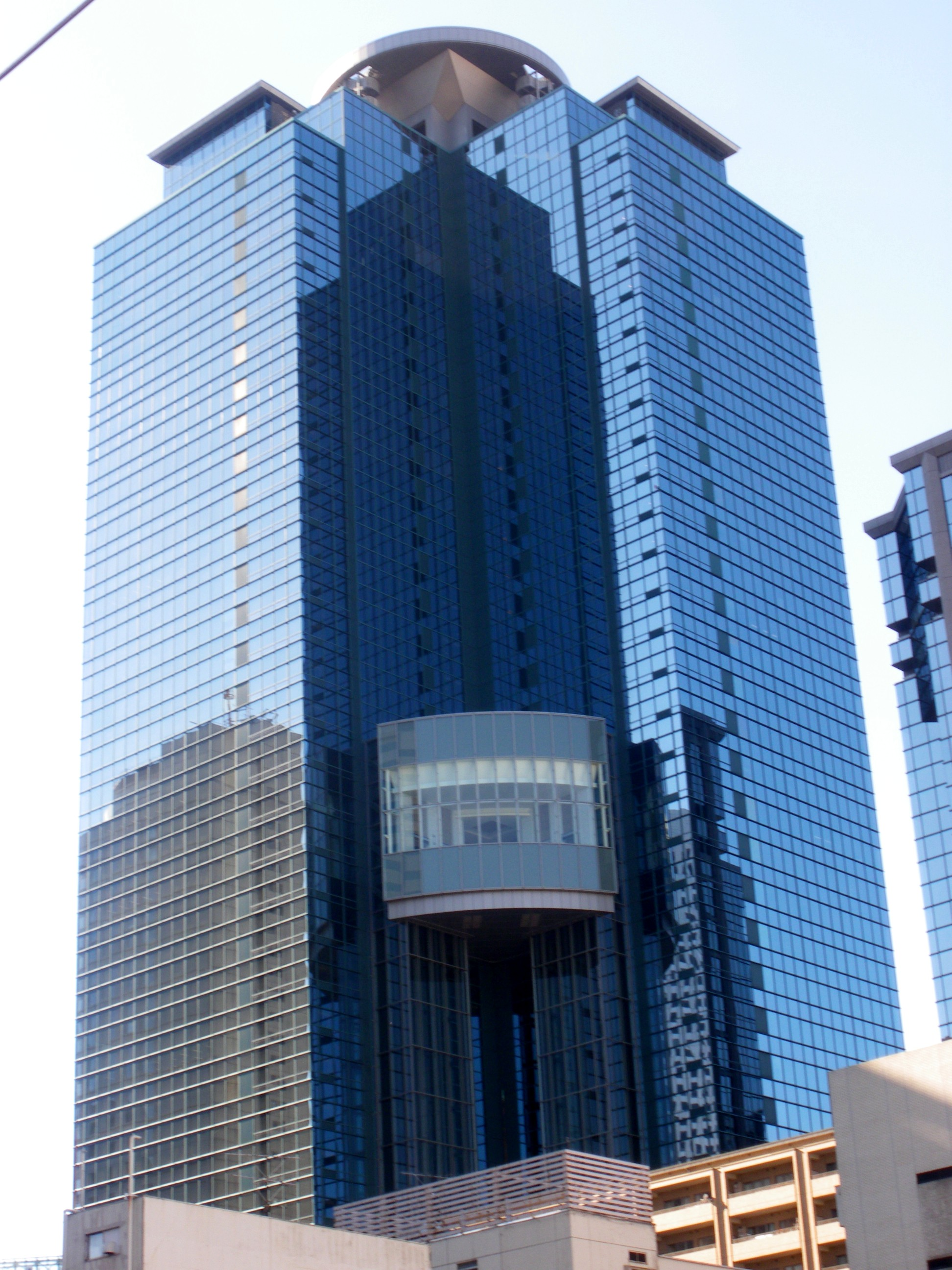 A photo of Sumitomo Fudosan Shinjuku Oak Tower,one of the skyscrapers in Shinjuku,Tokyo,Japan.